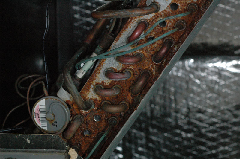 Copper Coil corrosion